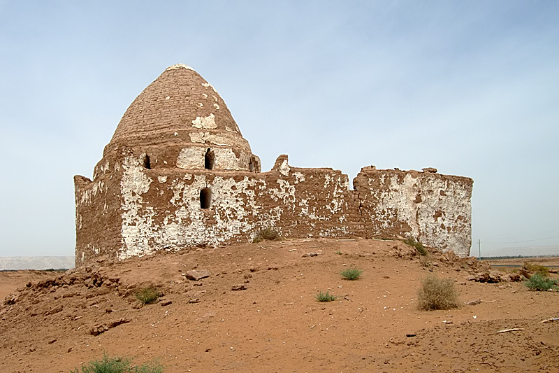 Tomb of Sheikh 'Abd el-Daim east of el-Qasaba, el-Dakhla depression, Libyan Desert, Egypt